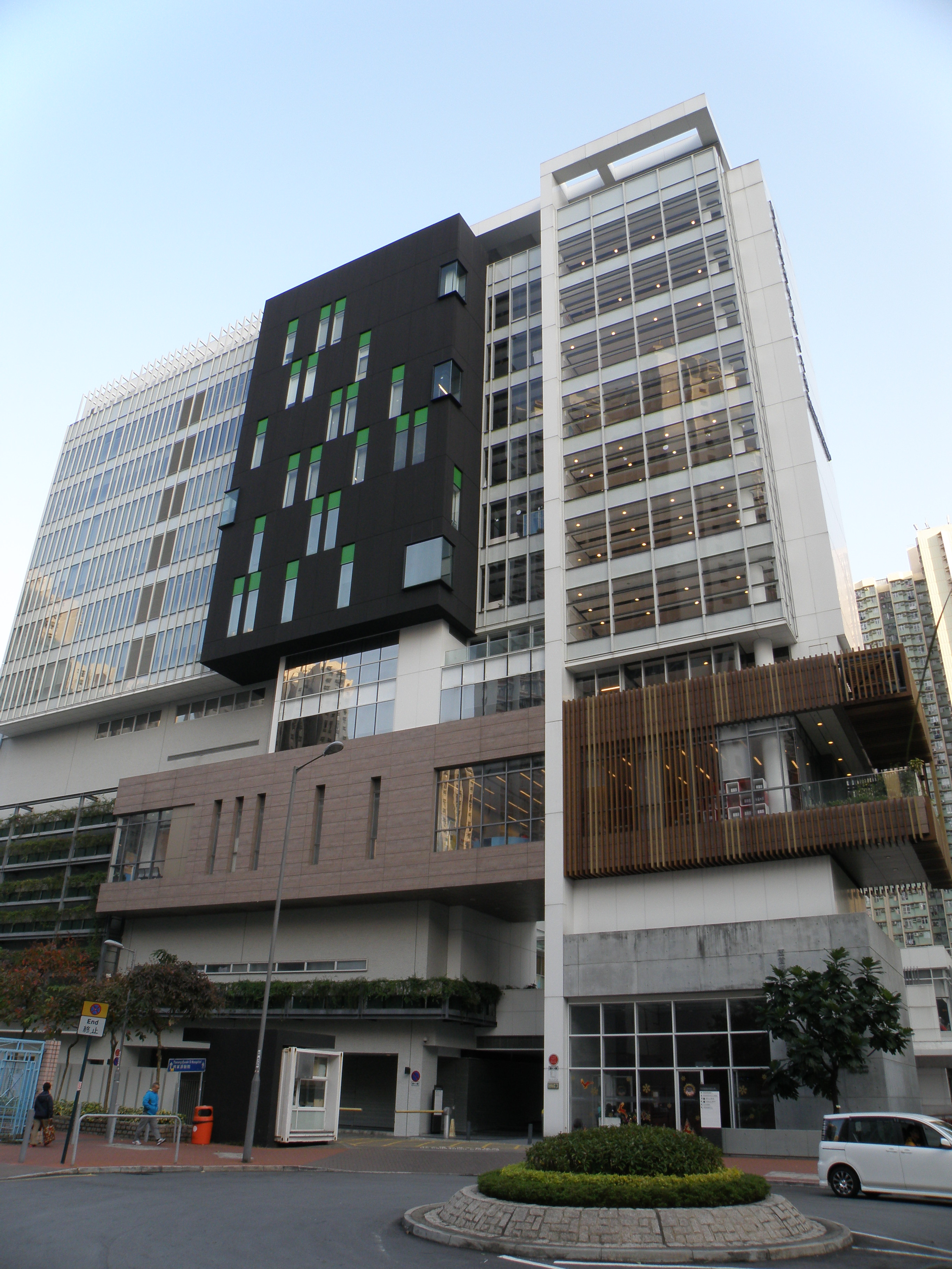 Sai Kung Tseung Kwan O Government Complex in Tseung Kwan O, Hong Kong.